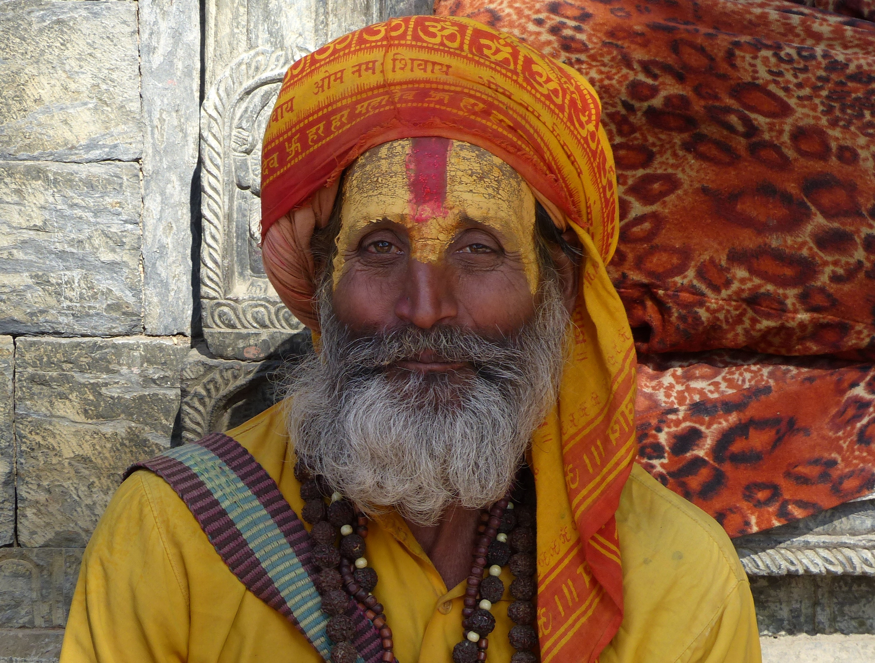 Hindu sadhu with painted face.